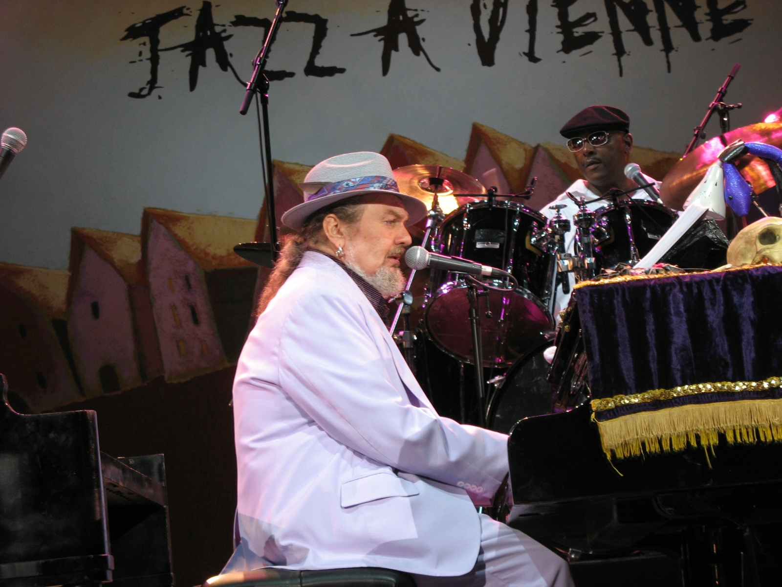 Dr. John in concert, Jazz in Vienne, France, 2006-07-14